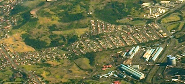 Aerial photo of Cringla near Wollongong from the east